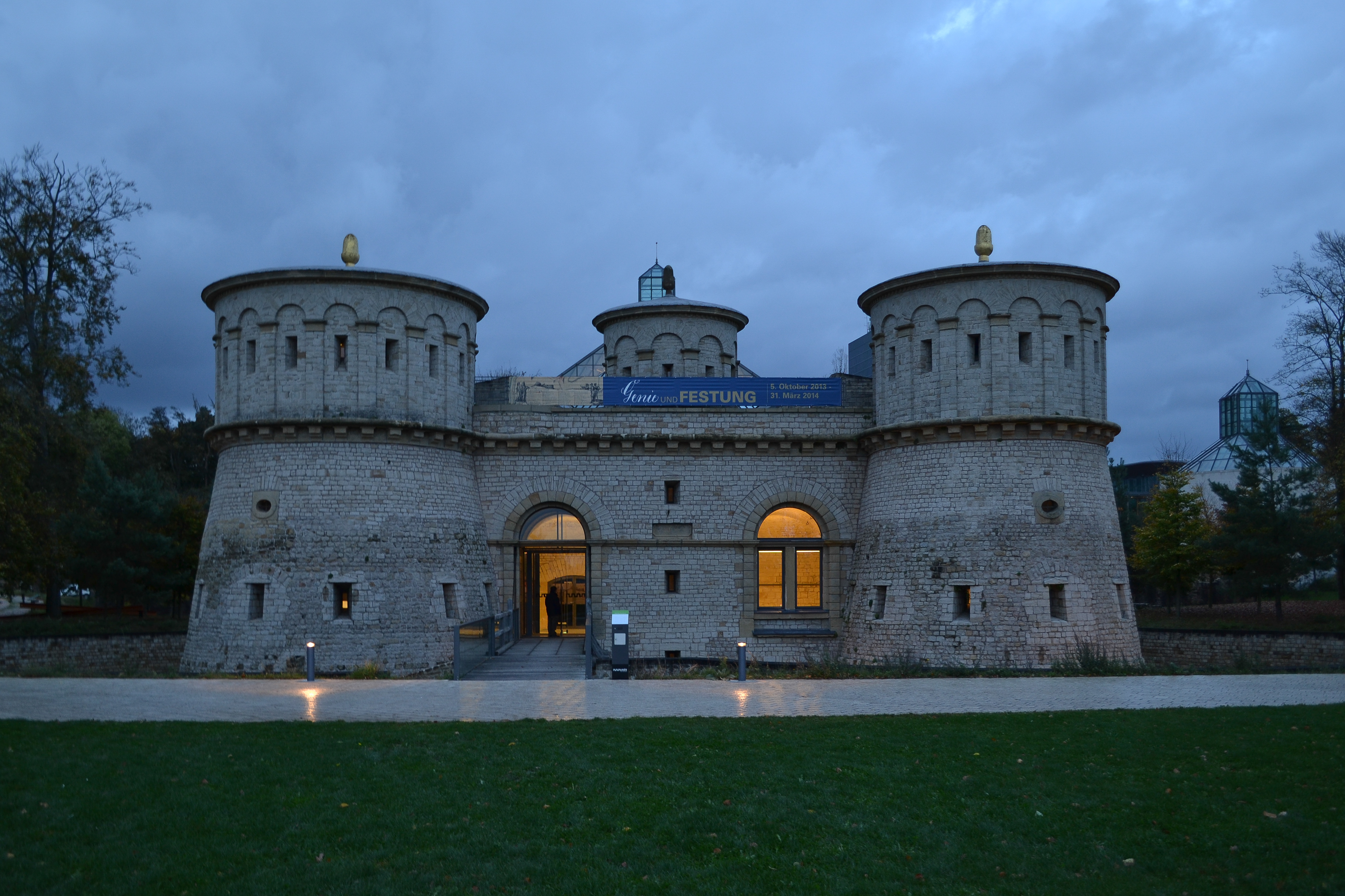 Dräi Eechelen museum in the Fort Thüngen, Kirchberg, Luxembourg